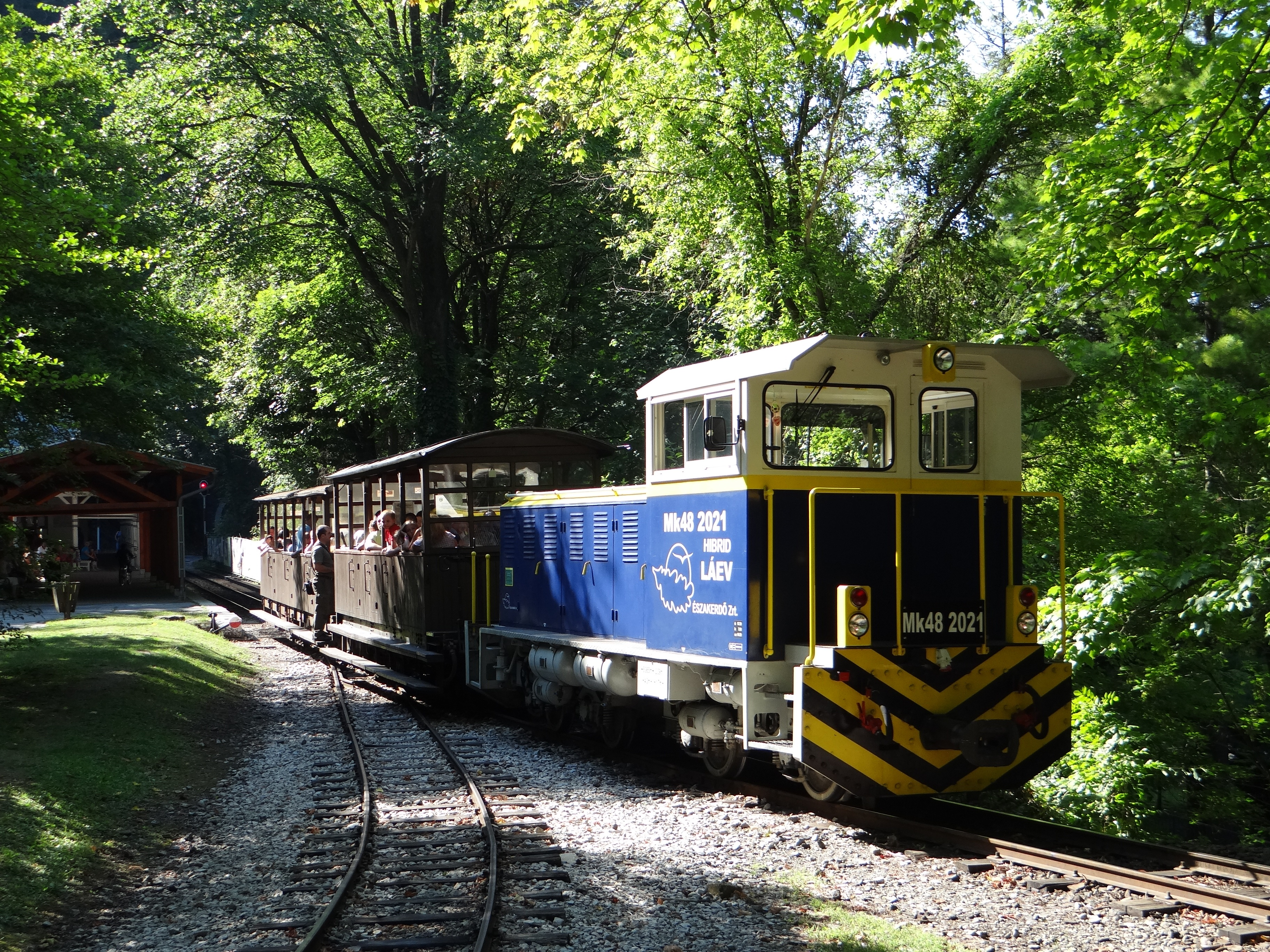 Narrow gauge train (with hybrid locomotive) in Lillafured, Hungary